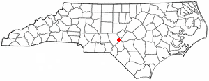 Category:North Carolina Dot Maps